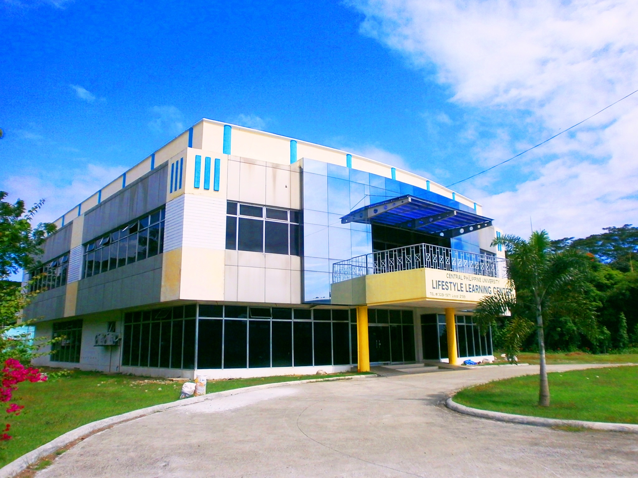 CPU Lifestyle Learning Center